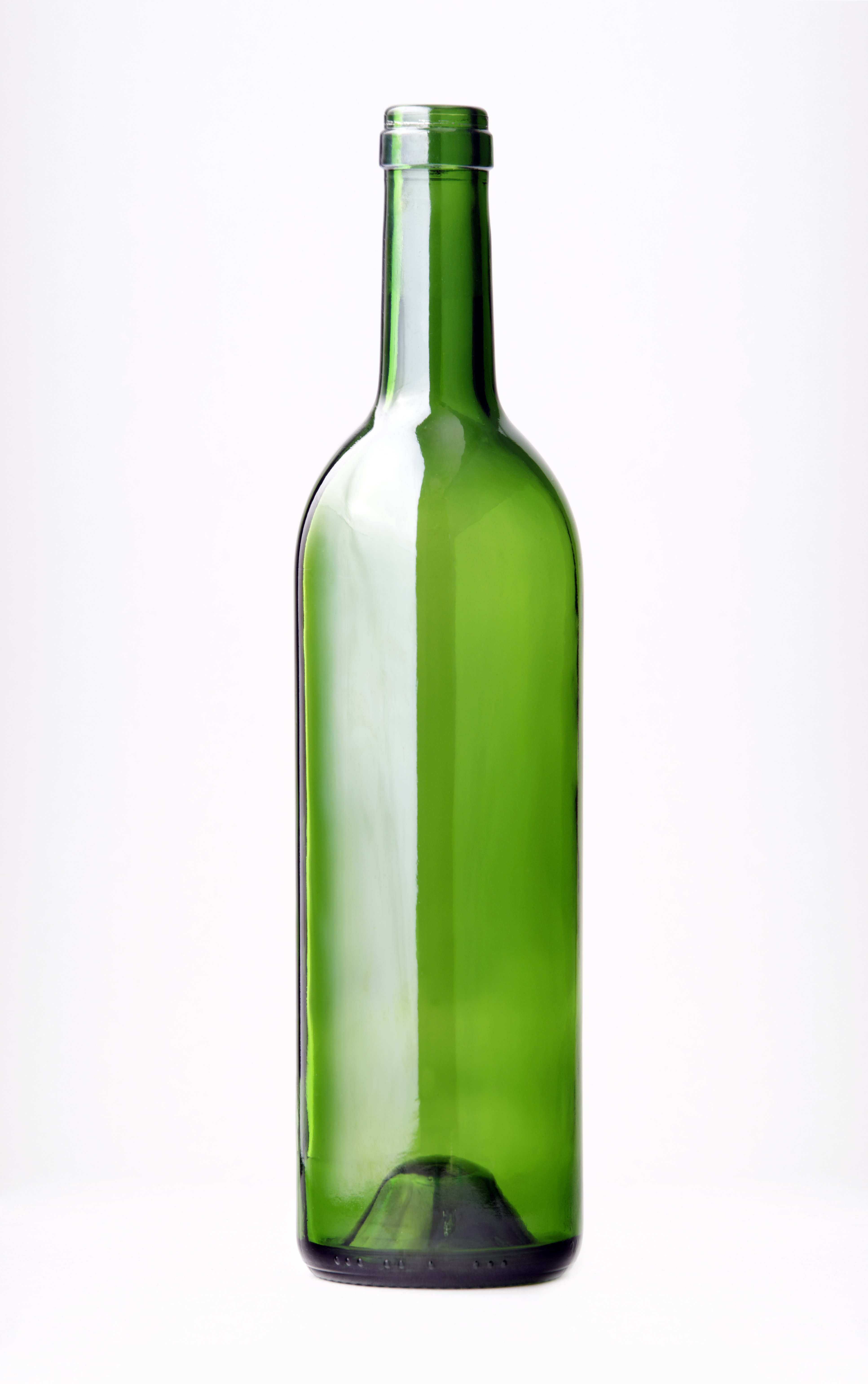 Green glass wine bottle